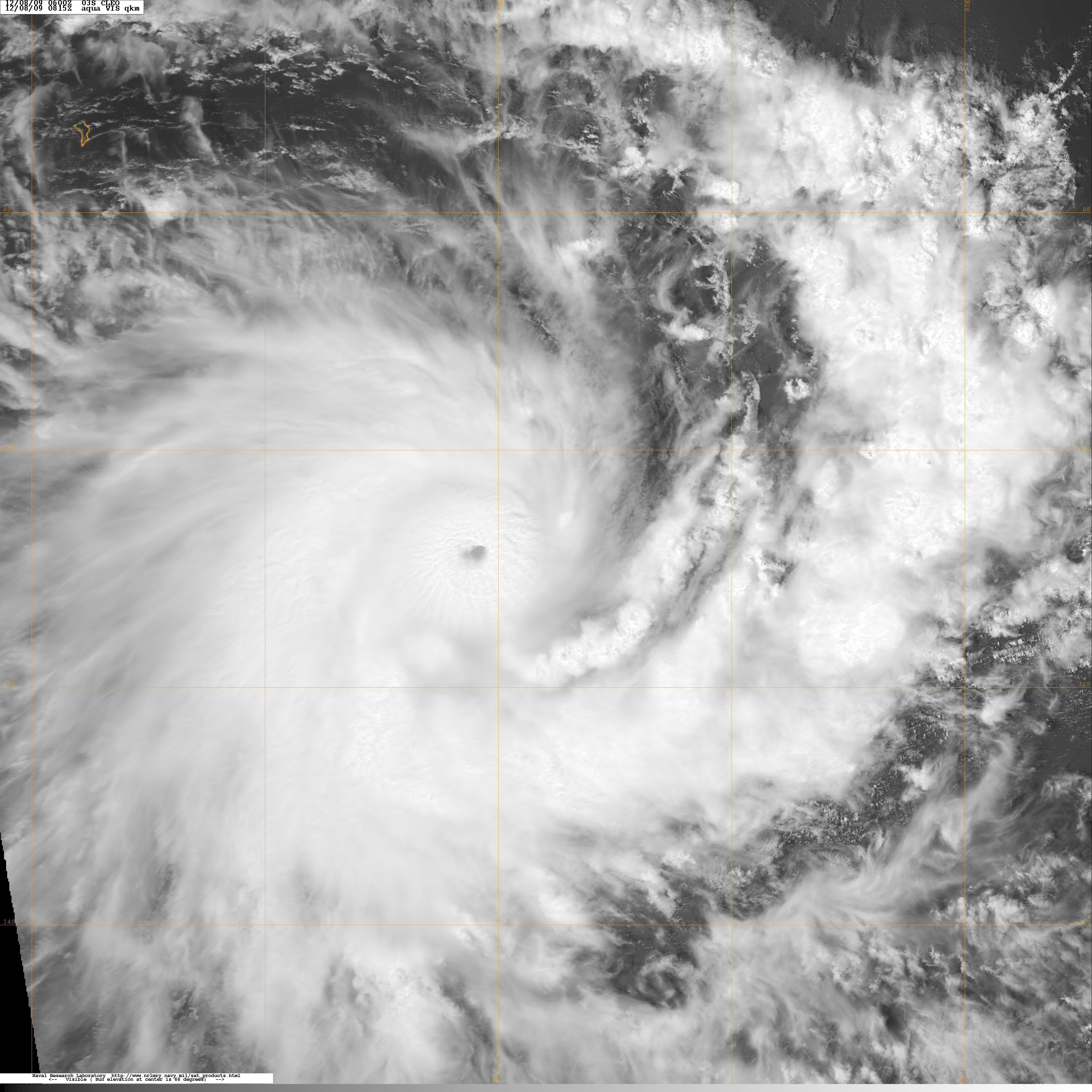 Tropical Cyclone Cleo, 365 miles southeast of Diego Garcia on 8 December 2009. Visible light photograph from AQUA satellite.